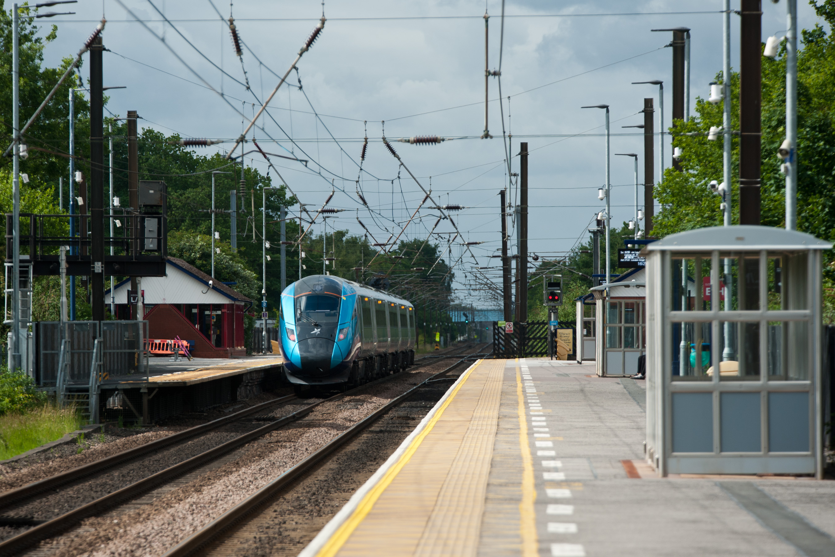 802215 in Northallerton railway station